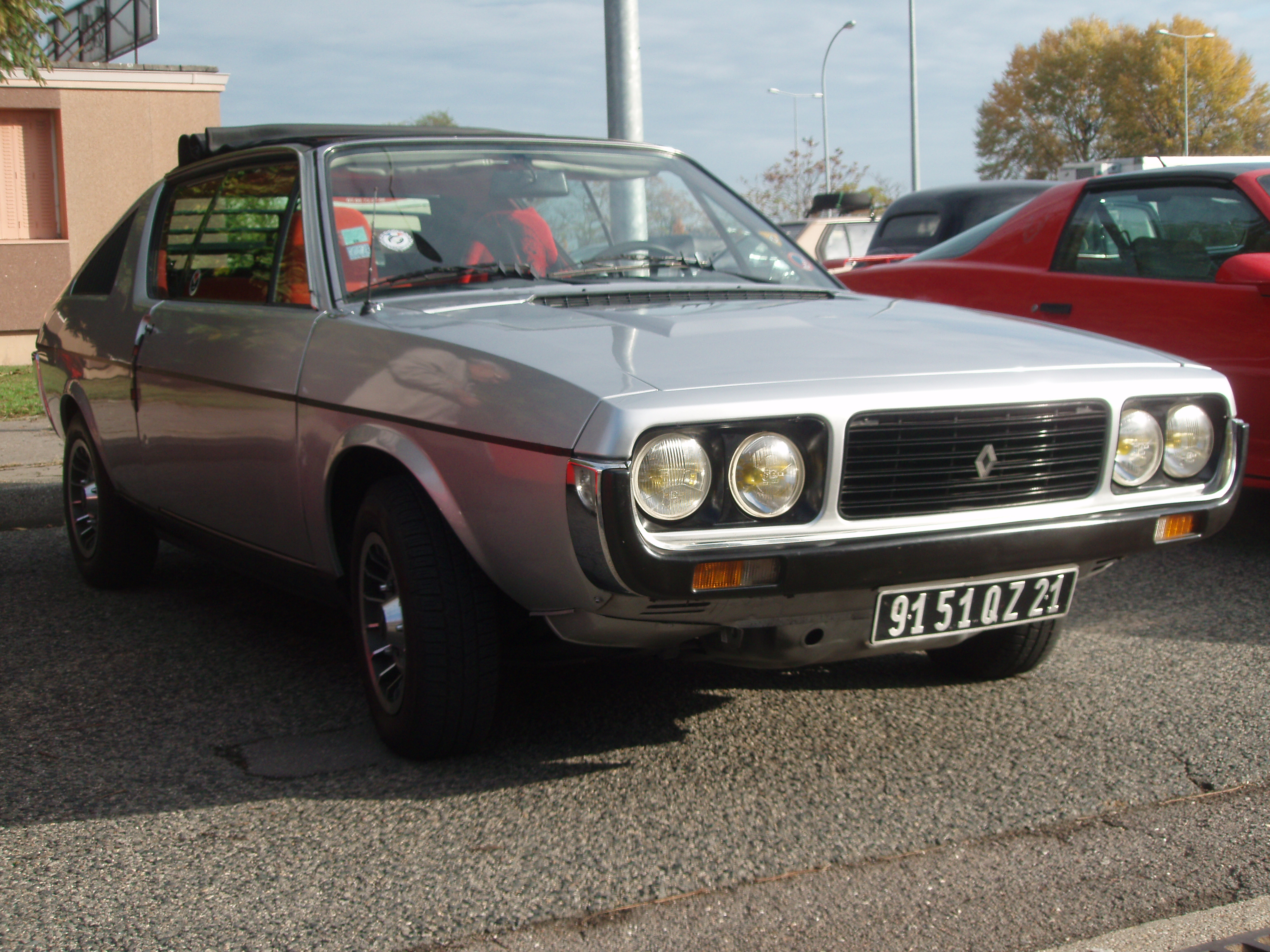 A Renault 17 coupe